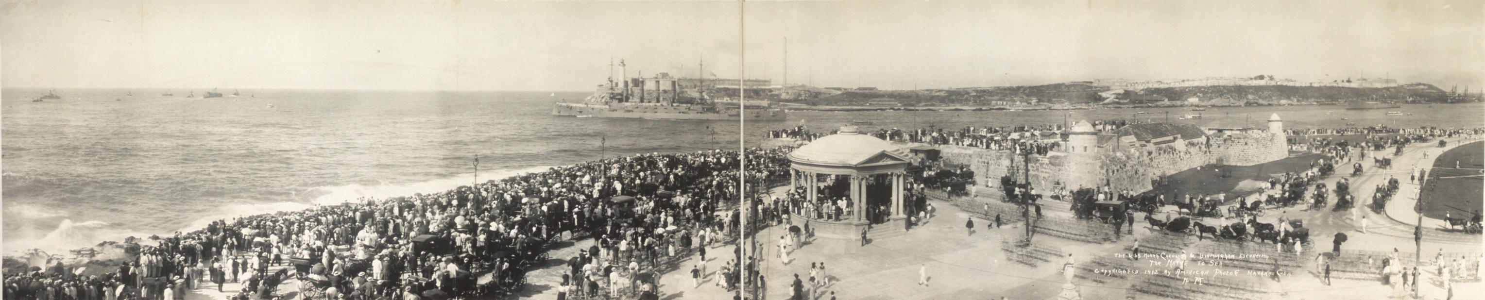 Panoramic view of Havana Harbor, Cuba, as the battleship USS North Carolina (center) and the cruiser USS Birmingham (far right) escort the wreck of the USS Maine (far left, in distance) to its final resting place four miles out to sea off the Cuban coast on March 16, 1913. More than 80,000 Cubans watched the procession of ships out of the harbor.